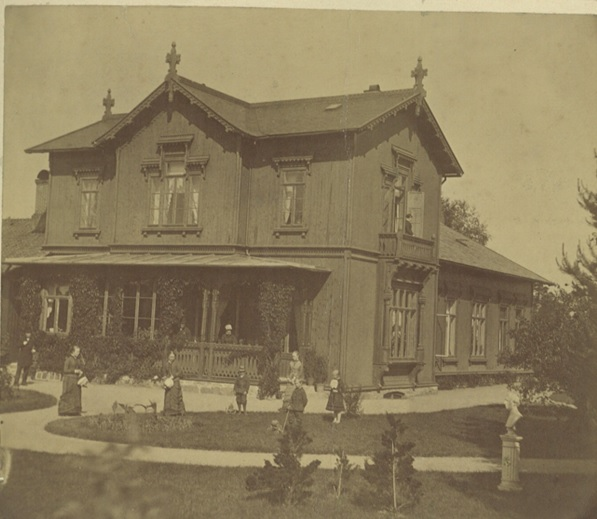 The Cappelen manor "Lilleklosteret", Solum (now Skien),Norway